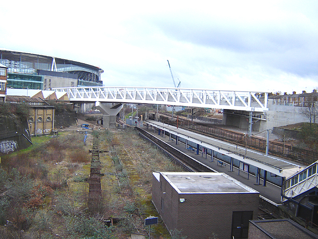 Drayton Park station and bridge to Emirates stadium, Holloway, Islington. 26 February 2006. Photographer: Fin Fahey.